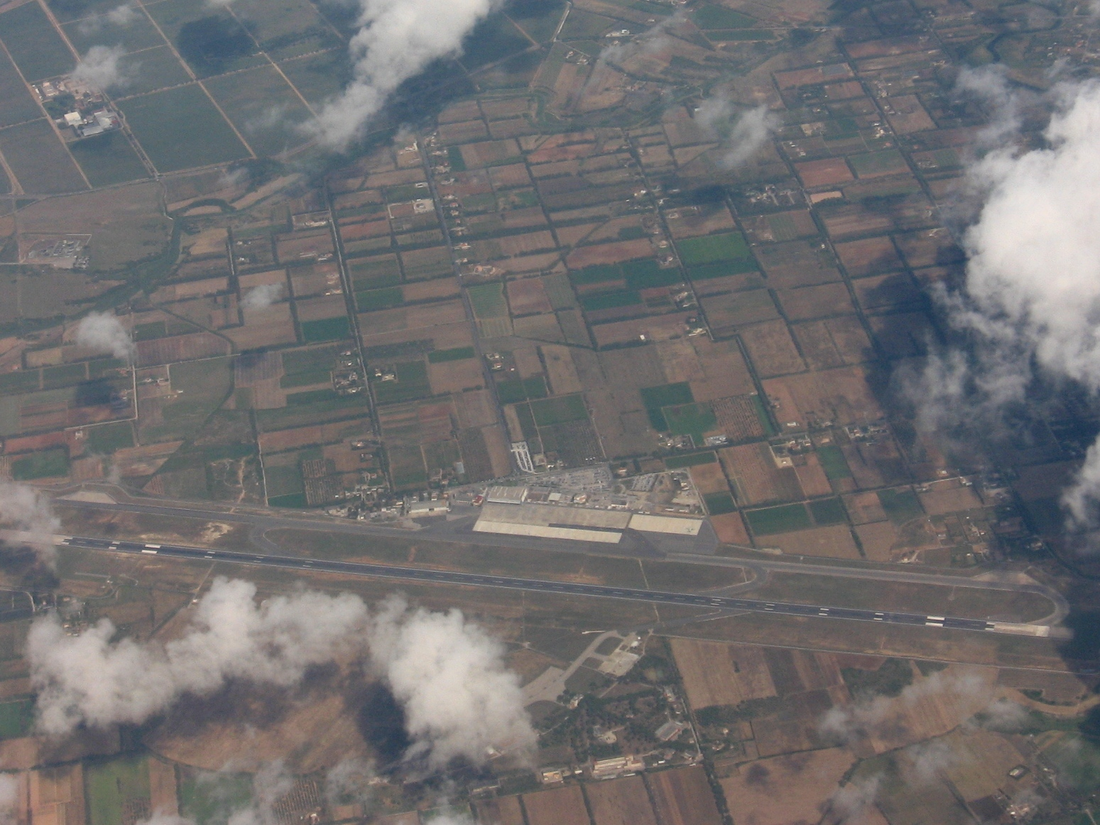 Alghero Airport